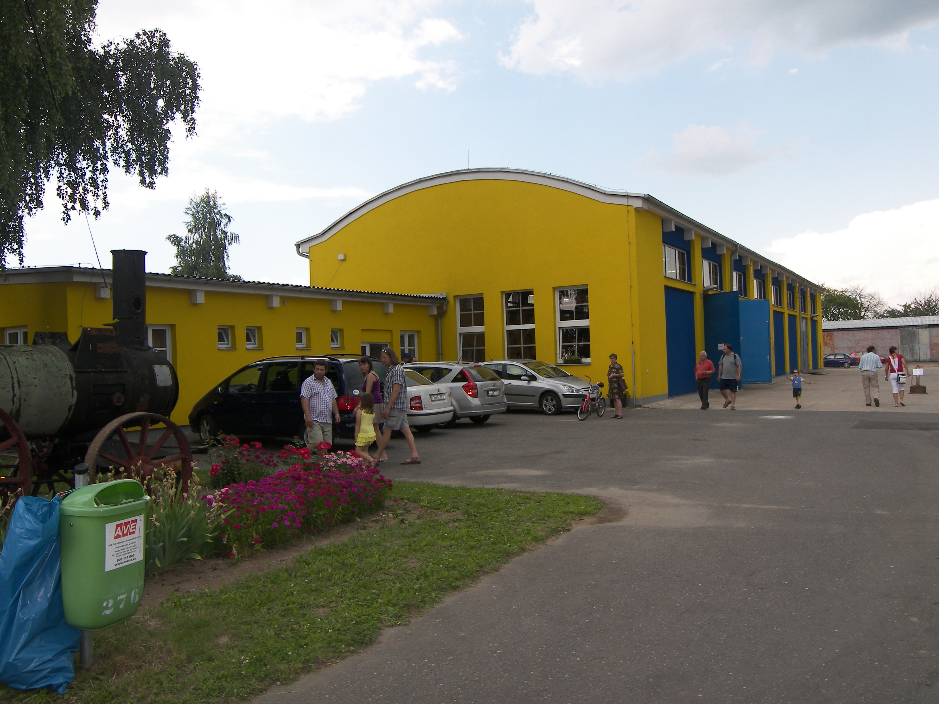 Museum of Farming Machinery Čáslav, Czech republic